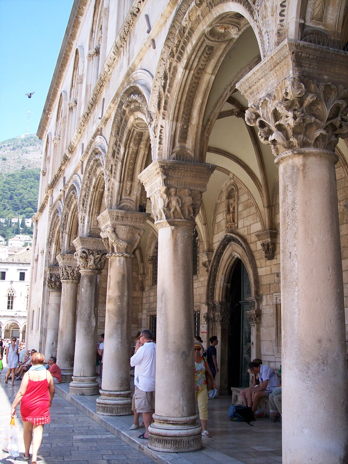 Rector's palace in Dubrovnik (Croatia)